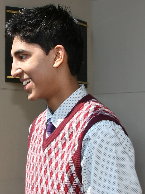 Dev Patel at the 2008 Toronto International Film Festival